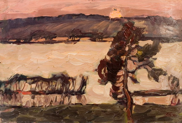 Art